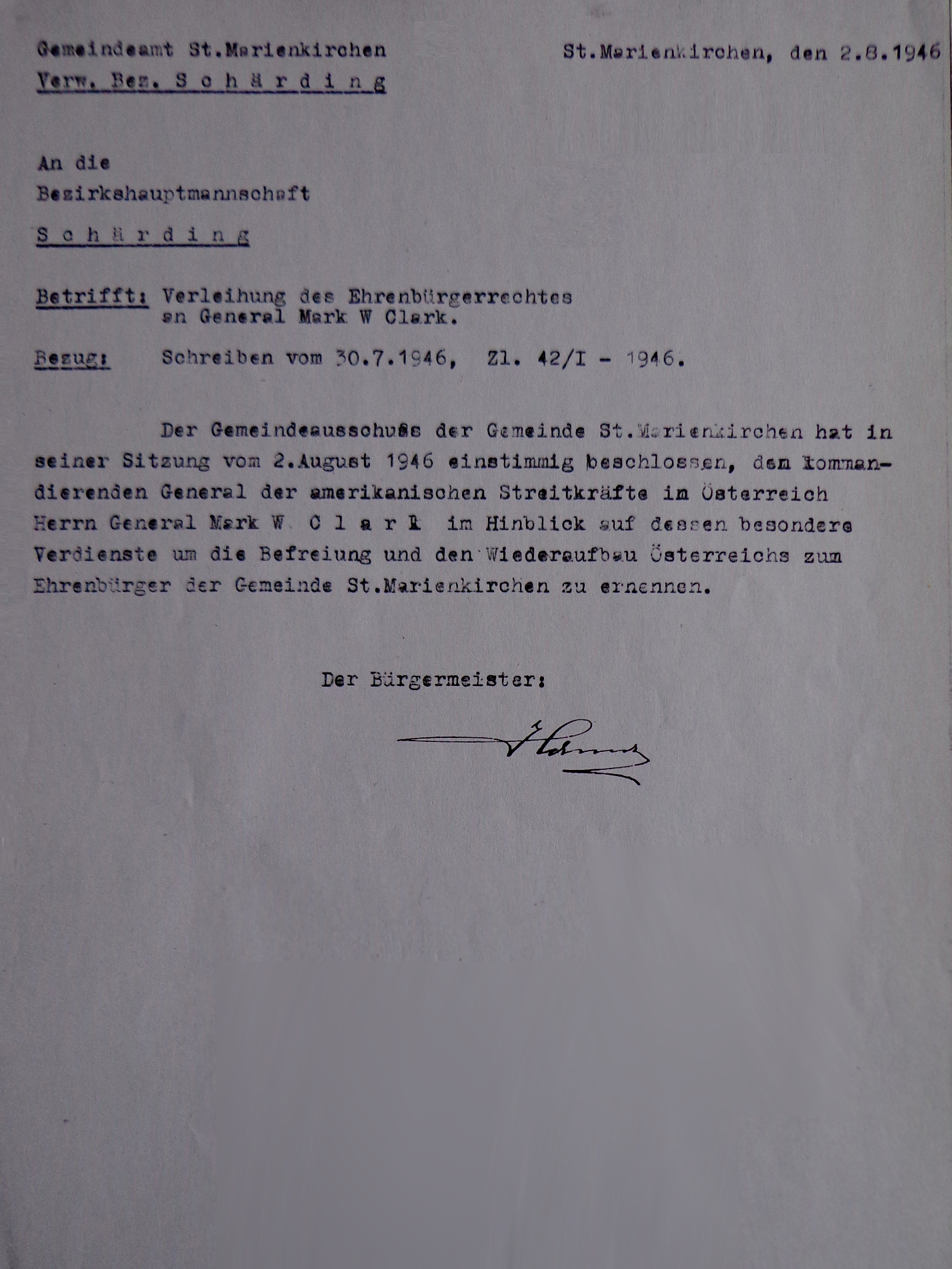 Official notification by the municipality of St. Marienkirchen bei Schärding regarding the bestowal of honorary citizenship upon General Mark W. Clark (1896–1984), US High Commissioner for Austria